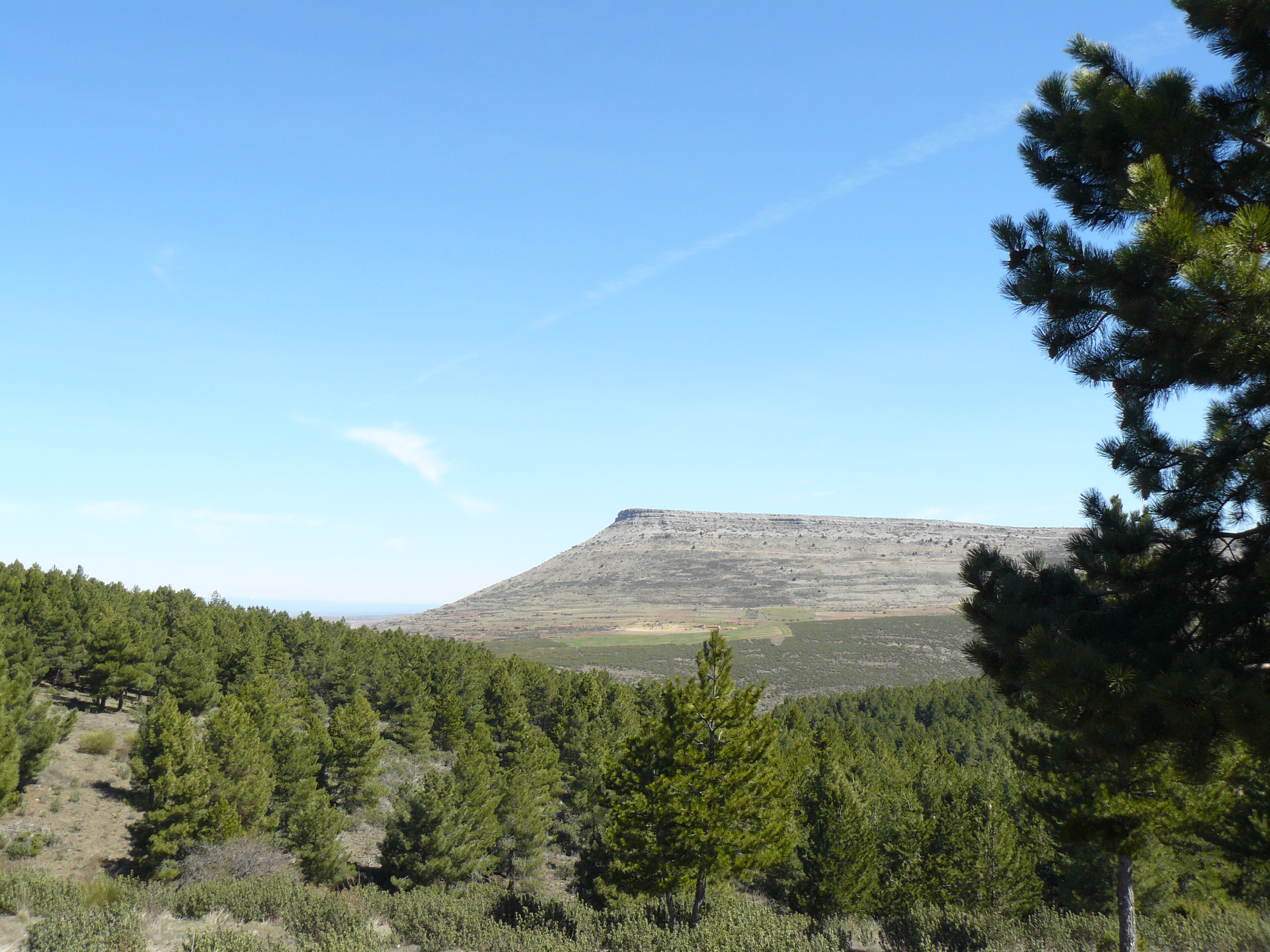 Pico de Grado, Sierra de Pela, Segovia (Spain).